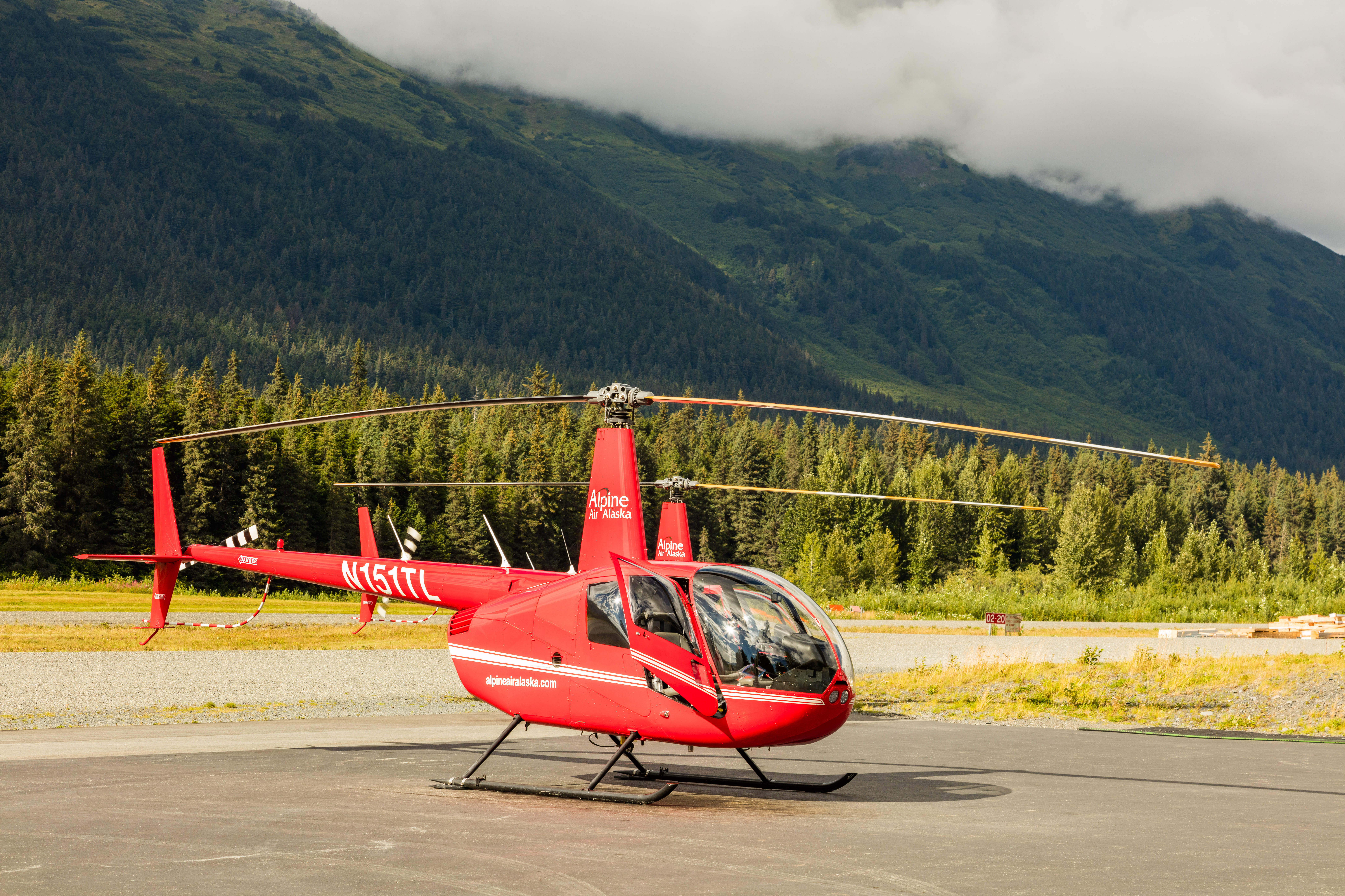 Robinson R44 helicopter, Portage, Alaska, USA